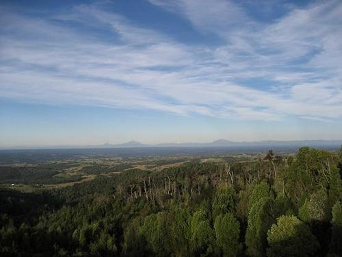 Los Vertientes Private Nature Reserve - Valdivian temperate rainforest - Los Lagos Region, southern Chile.